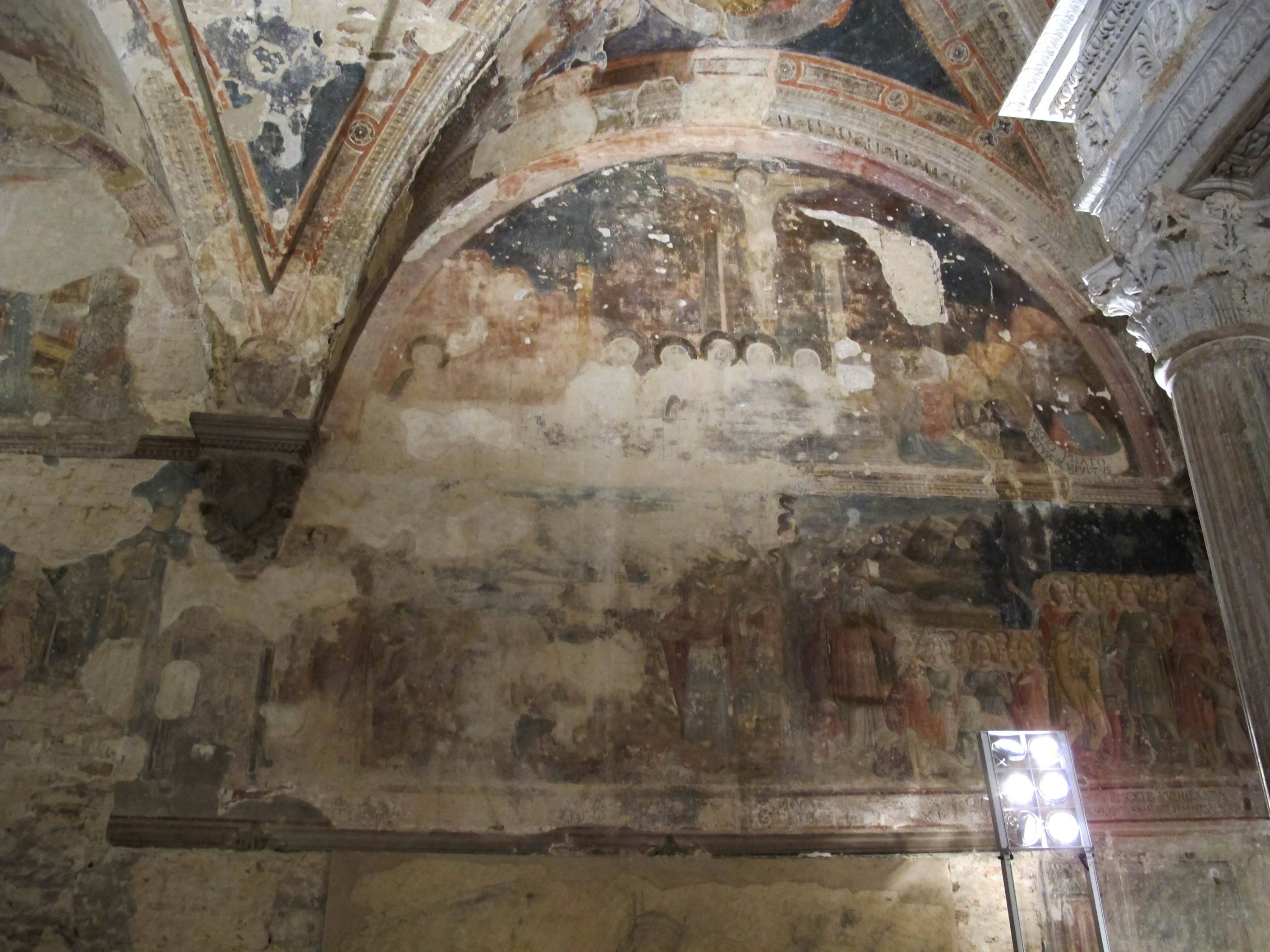 Santa Maria della Scala Hospital (Siena)